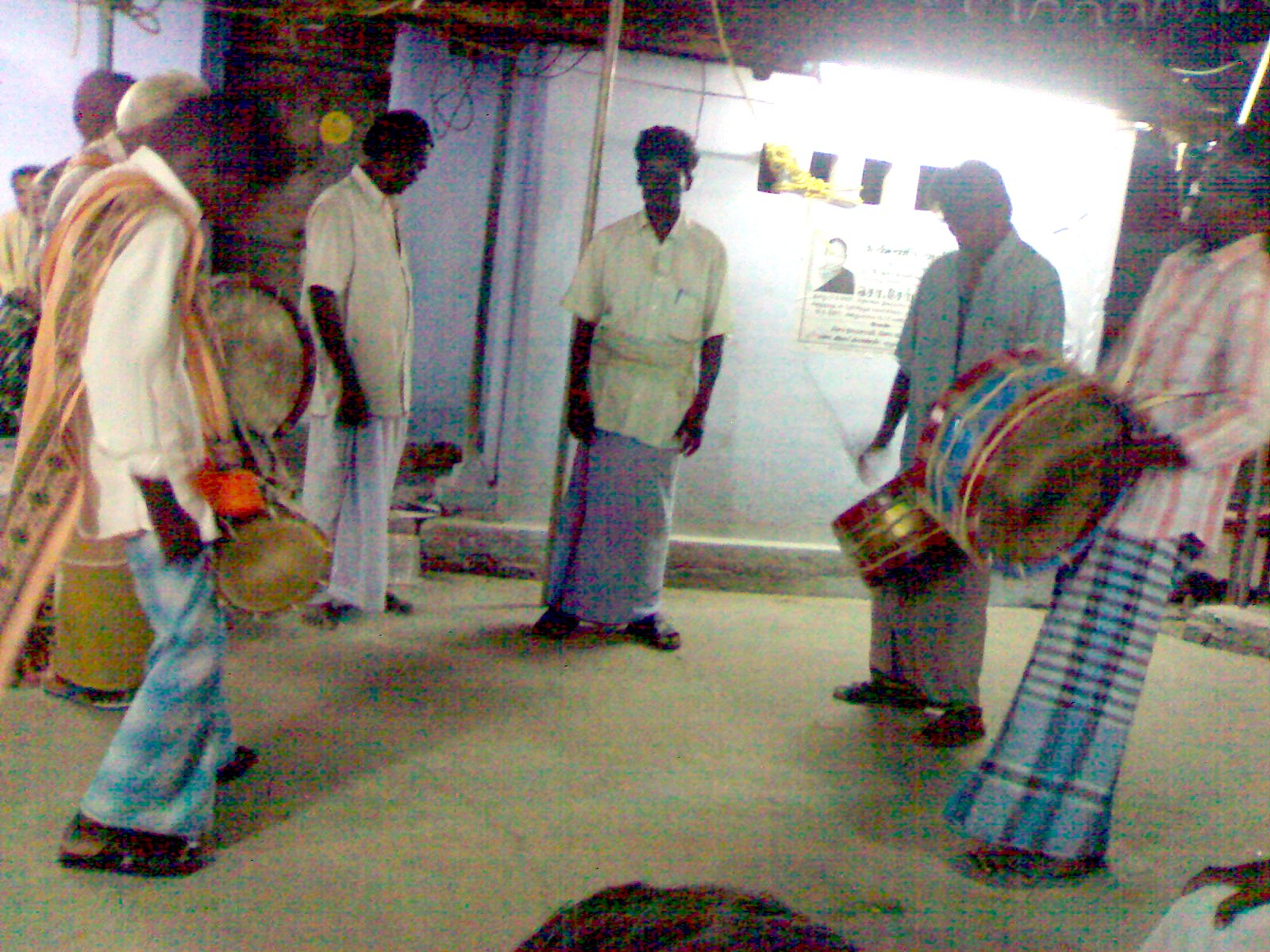 Tamil folk artists performing in a funeral; performance included playing traditional percussion instruments, singing in praise of the departed, and dancing to the drum beats. This helps people observe the wake ceremony. A wall poster featuring an obituary for the person passed away is seen in the backdrop. Photographed in Ettayapuram. See also: Image:TamilFolkMusicInFuneral.ogg.